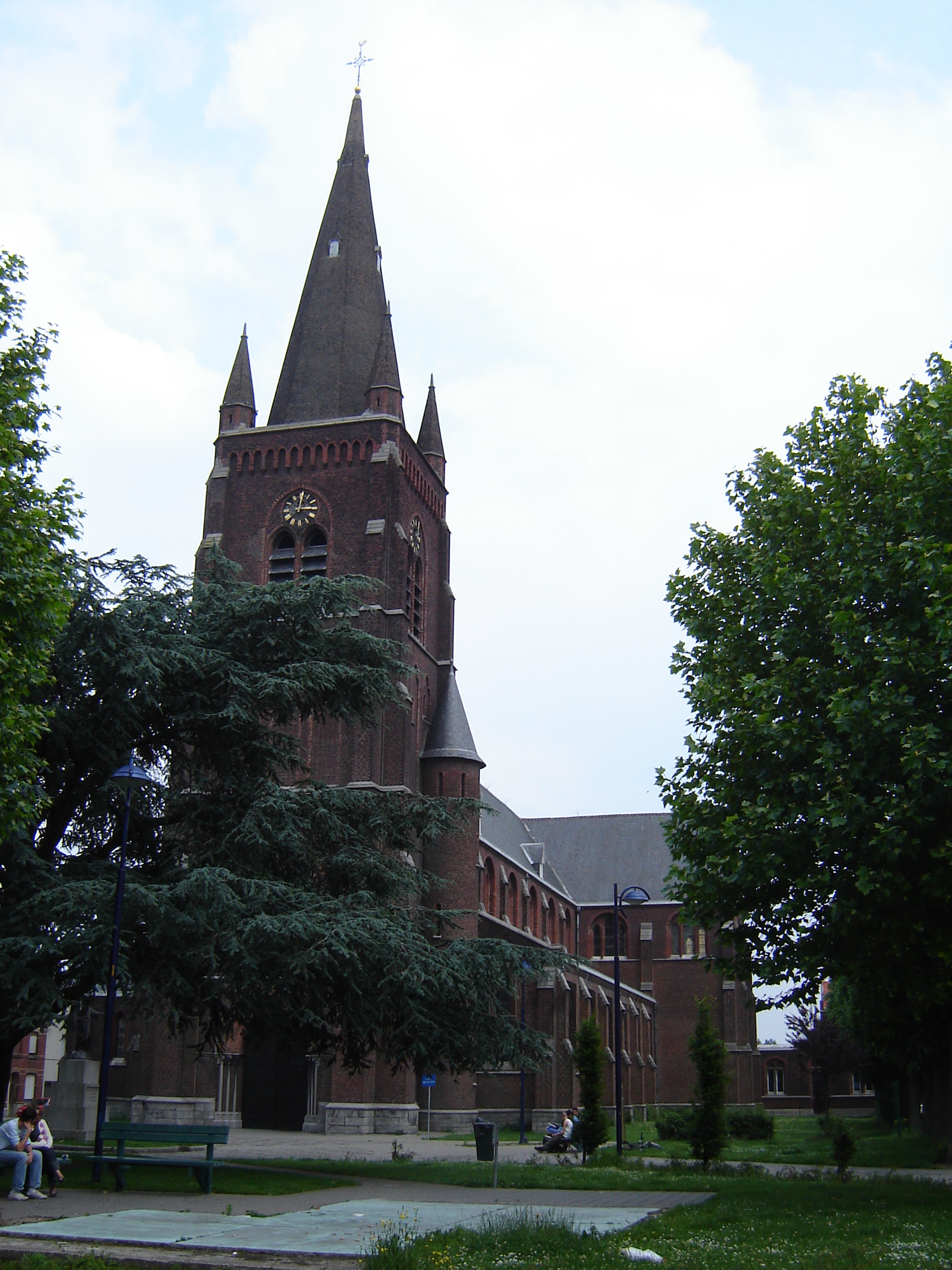 Church of the Saint-Joseph, in the De Barakken quarter in Menen. Menen, West Flanders, Belgium